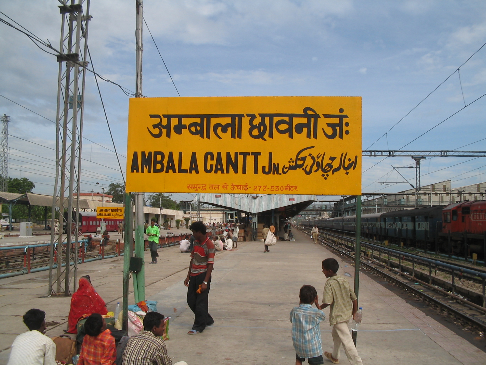 Ambala (Hindi: अंबाला) is a city located on the border of the states of Haryana and Punjab in India. Politically; Ambala has two sub-areas: Ambala Cantt (cantonment) and Ambala City, a few kilometers apart from each other. The Cantonment's railway station board